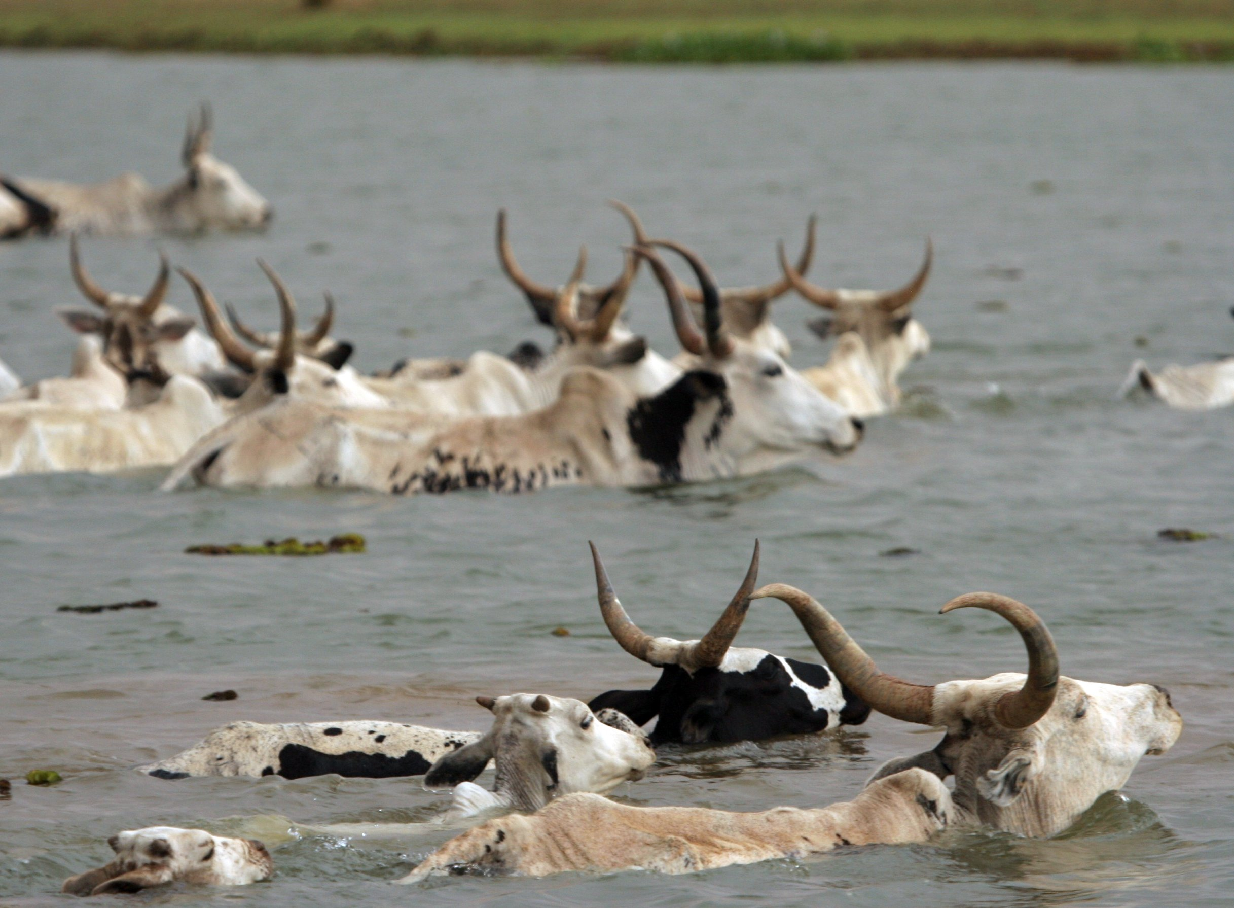 Cattle crossing the Niger river near Segou, Mali (2008)